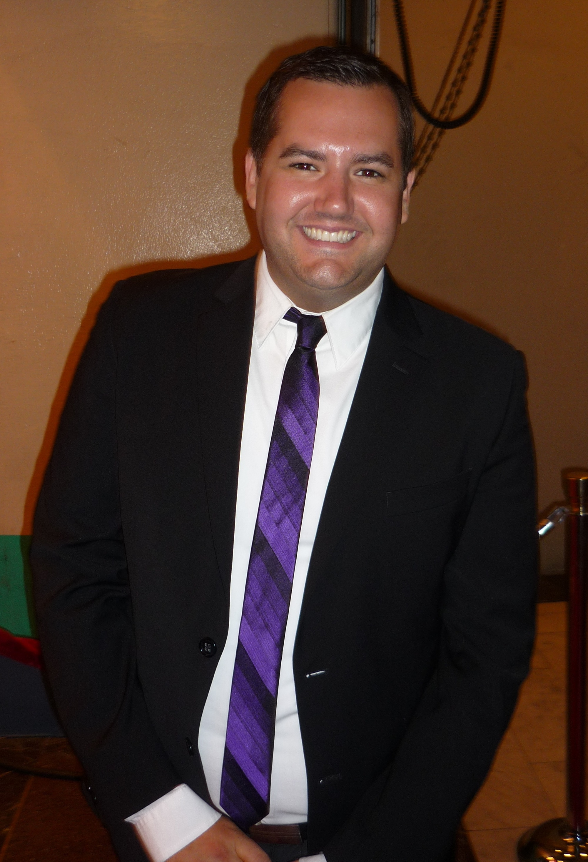 Ross Mathews at the Macys Passport Glamorama